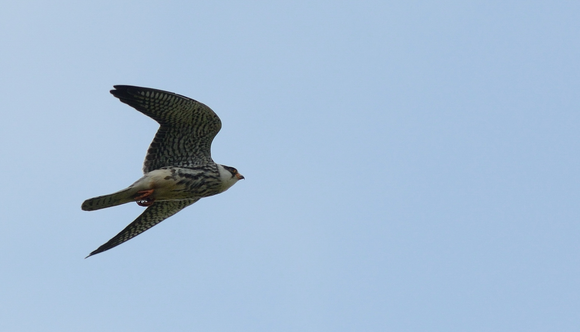 Female Amur Falcon Falco amurensis in flight. In passage over Assam, India (21 October 2013).